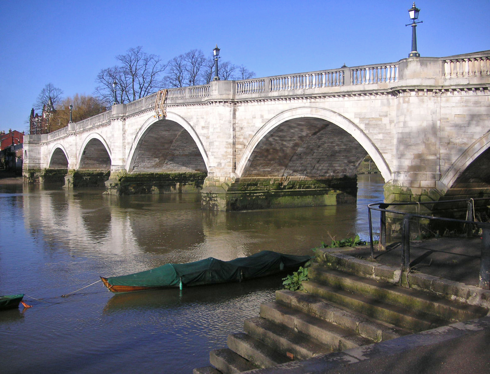 Richmond, London. Richmond Bridge, from the south, April afternoon